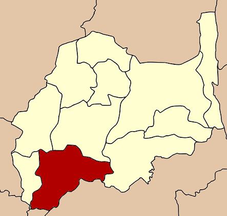 Map of Lopburi, highlighting Amphoe Mueang Lopburi (Geocode 1601).